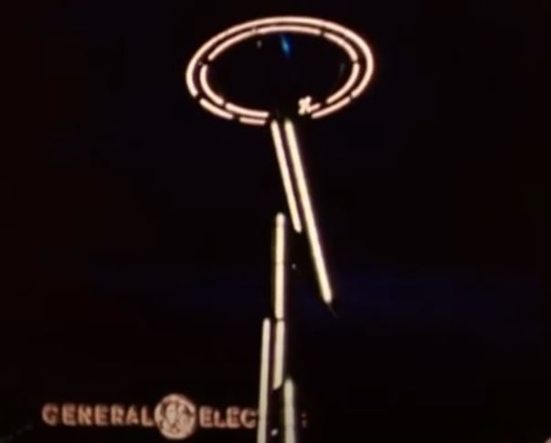 1939 World's Fair